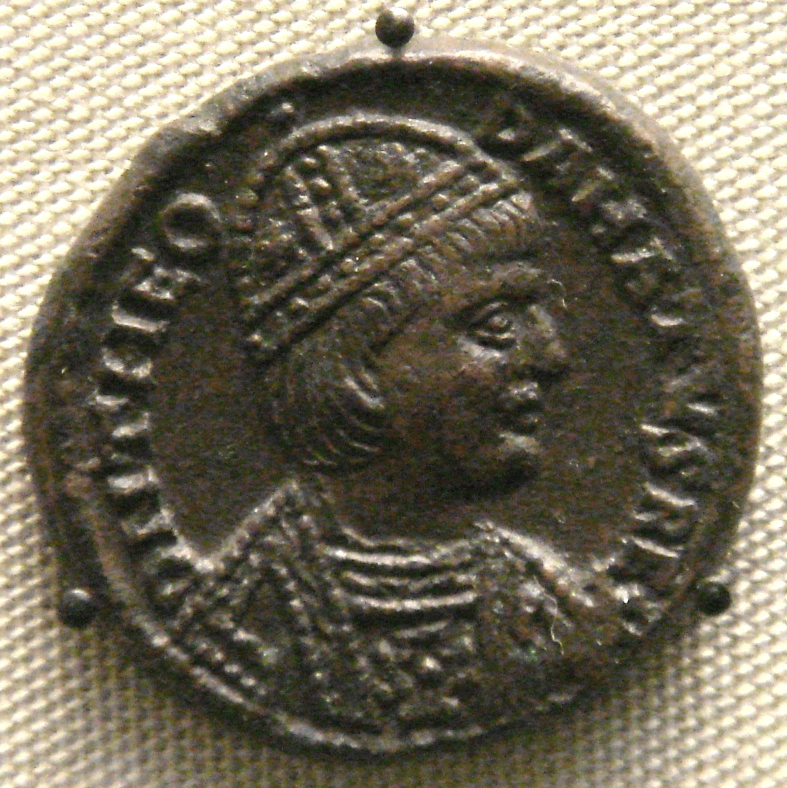 Theodahad